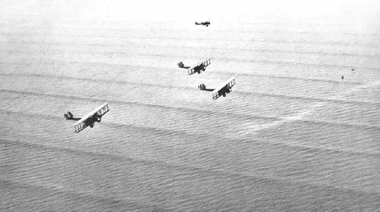 Periodic waves in shallow water. The original caption read: "As they near shallow water close to the coast of Panama, huge deep-sea waves, relics of a recent storm, are transformed into waves that have crests, but little or no troughs. A light breeze is blowing diagonally across the larger waves to produce a cross-chop. Three Army bombers, escorted by a training ship, are proceeding from Albrook Field, Canal Zone, to David, Panama." (in: National Geographic 63 (1933).)